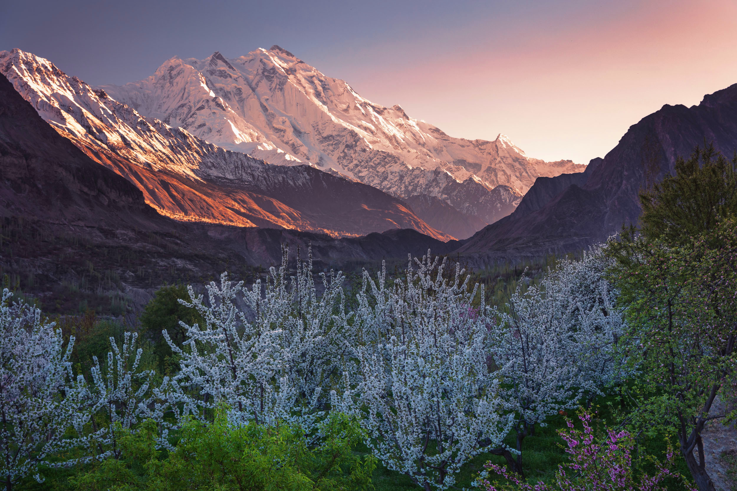 Rakaposhi poses in front of the Apricot trees on full bloom in the season of Spring Hunza, Gilgit Baltistan